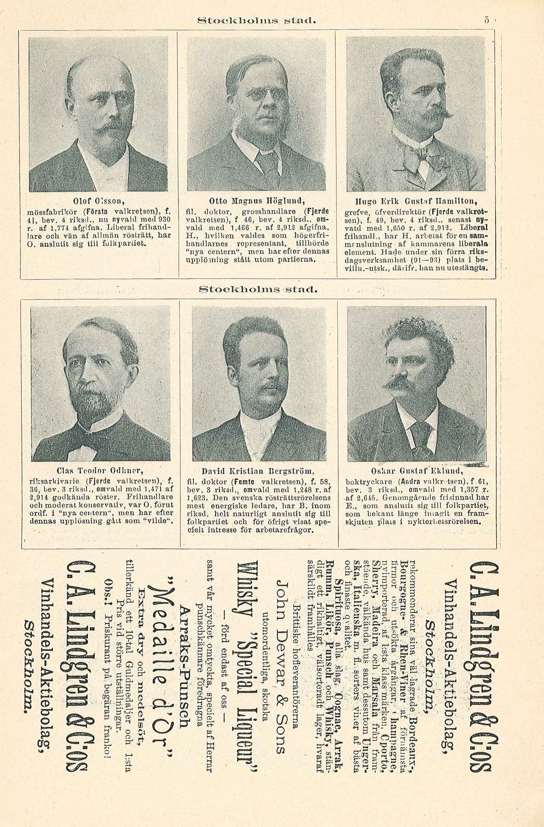 Page 5 of an album featuring portraits of all the members of the second chamber of the Swedish parliament (Sveriges riksdag) elected in 1897. This page featuring parts of the members representing the city of Stockholm.